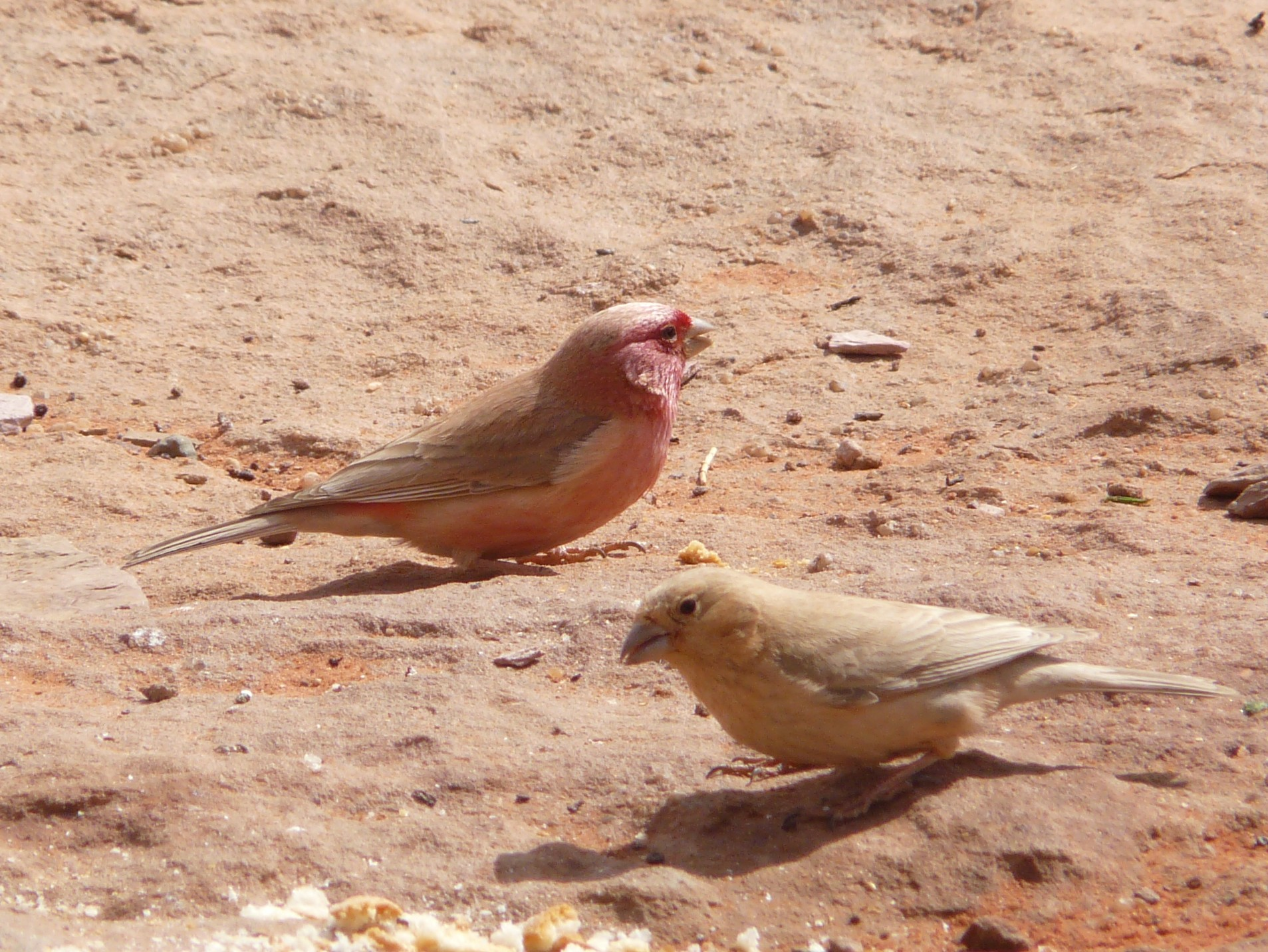 A pair of Pale Rosefinchs in Jordan.